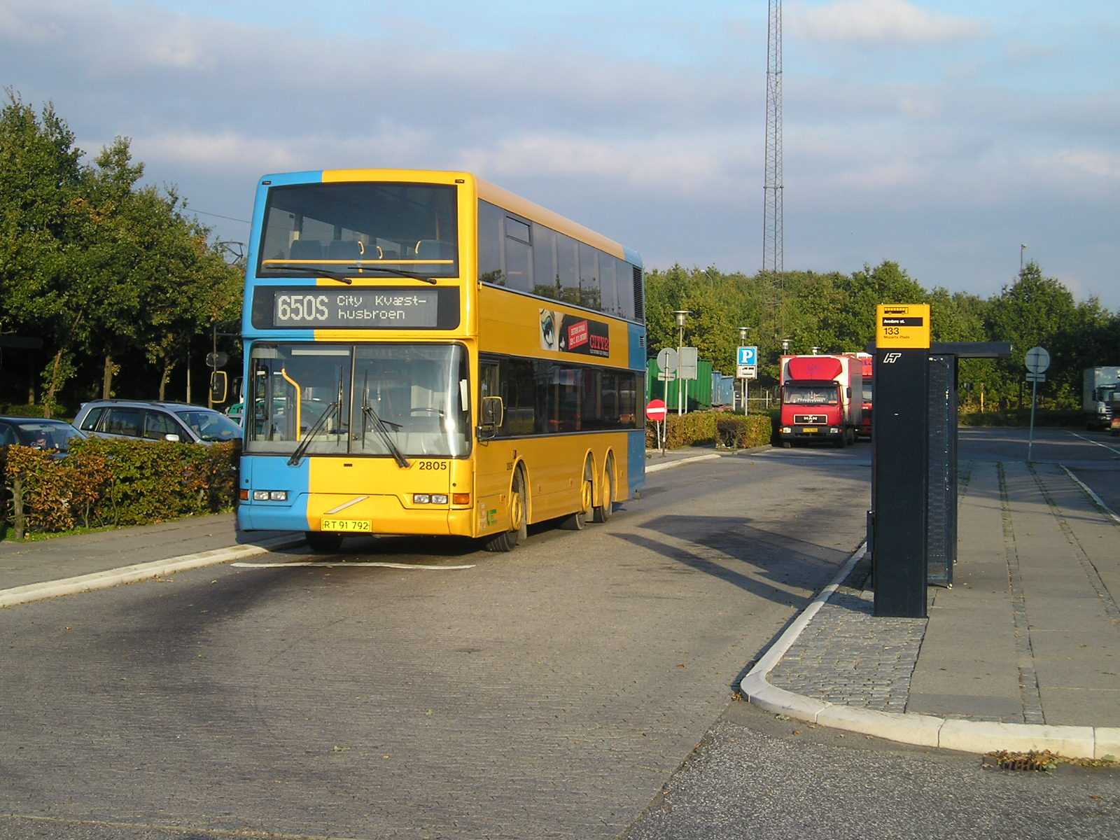 HT bus line 650S at Avedøre Station in Copenhagen.